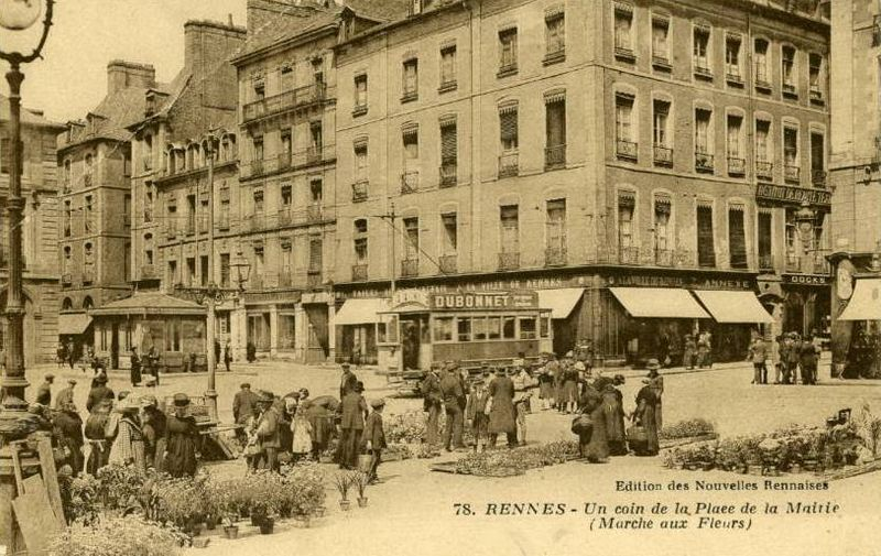 Tramway Electrique de Rennes